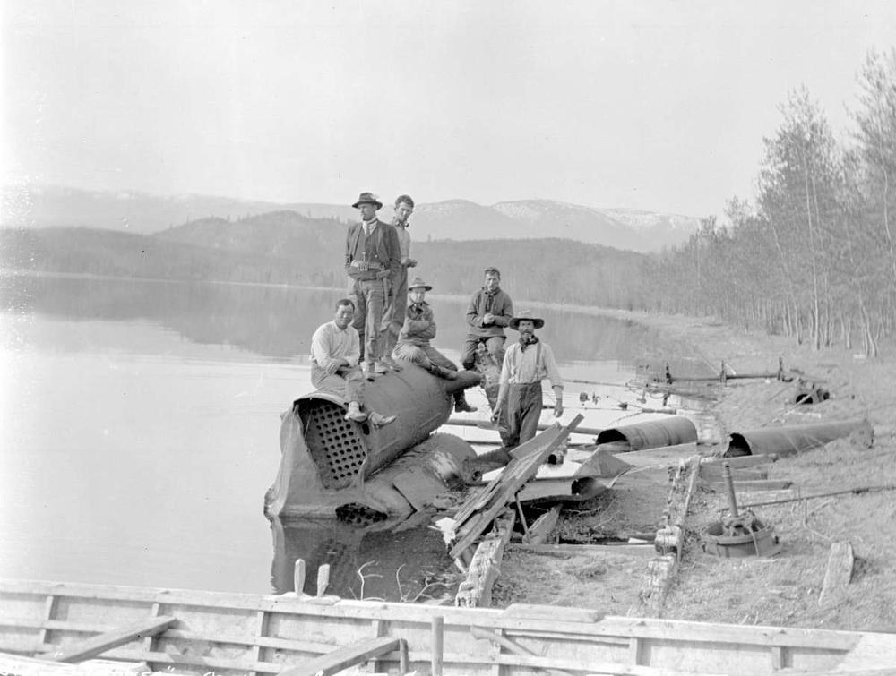 Wreck of the SS Enterprise in Tremblay Lake; from the Omineca gold rush, 1871.